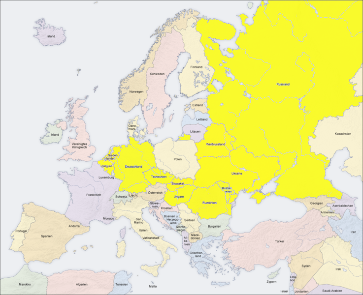 Länder, die 2006 bei der Weltmeisterschaft im Formationstanzen (Standard) teilgenommen haben.